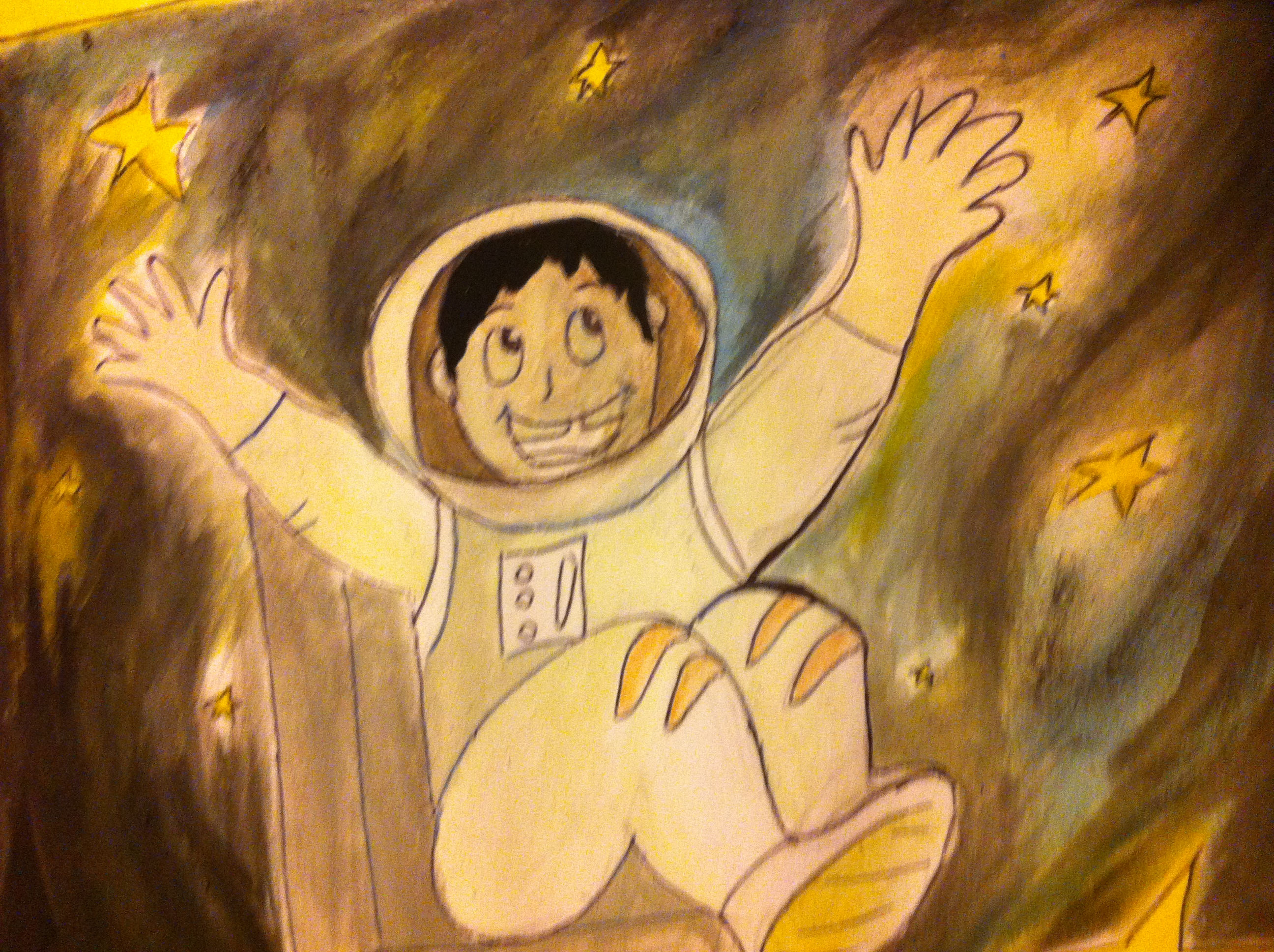 'Over The Moon' was created by Jessica Taylor to illustrate lyrics from 'Adventure', a song written by Rhonda Merrick and composed by Ritchie Swann for the British television series for children, The Brilliant Book.